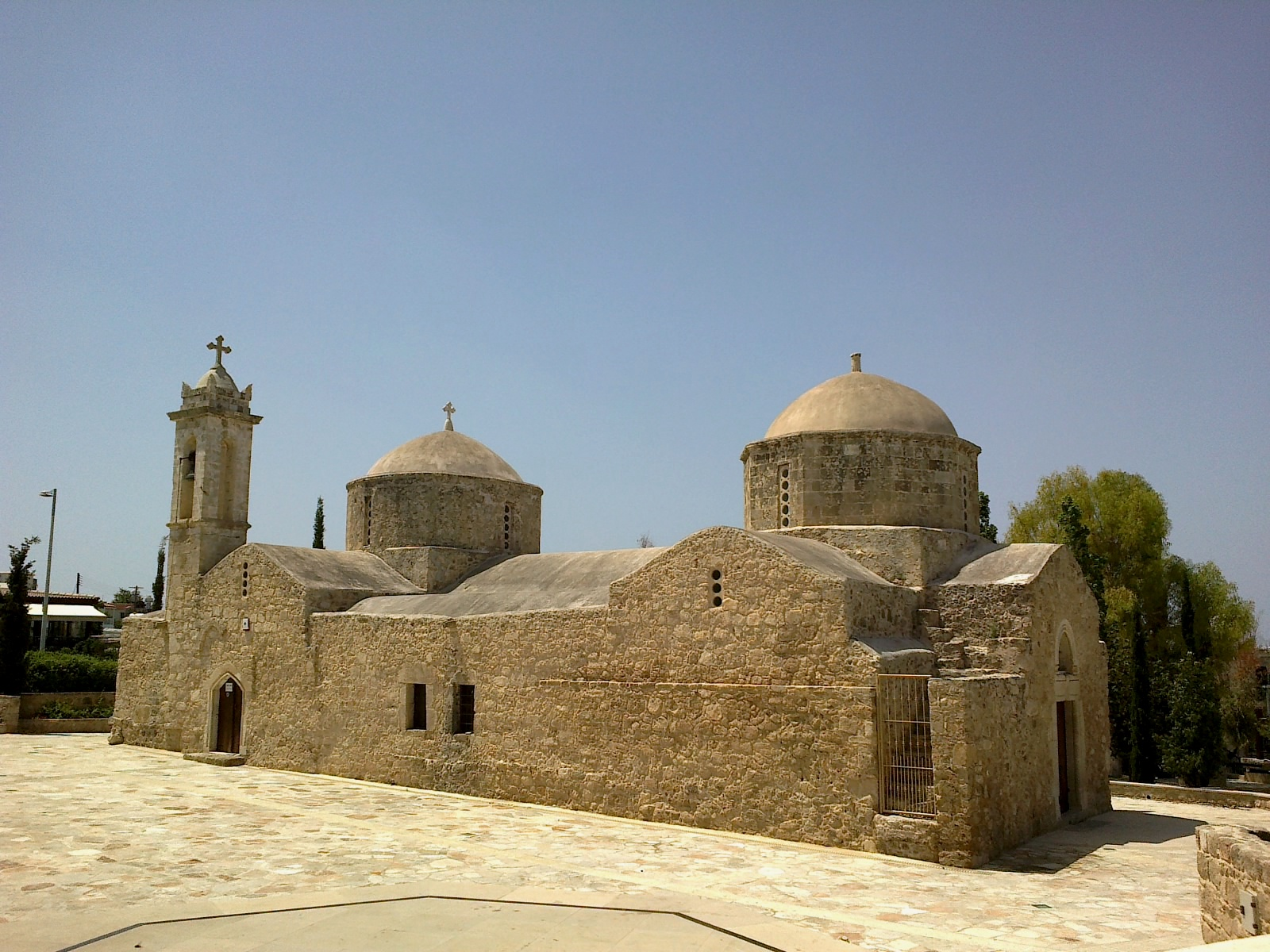 Chypre Emba Panagia Chryseleoussis